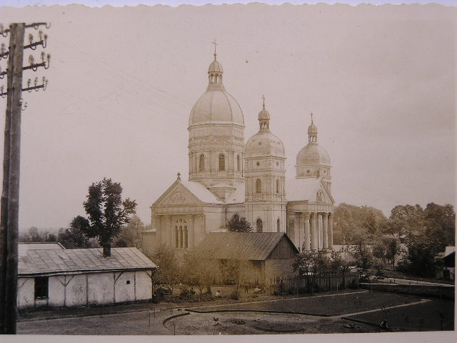 Greek-catholic church in Radymno